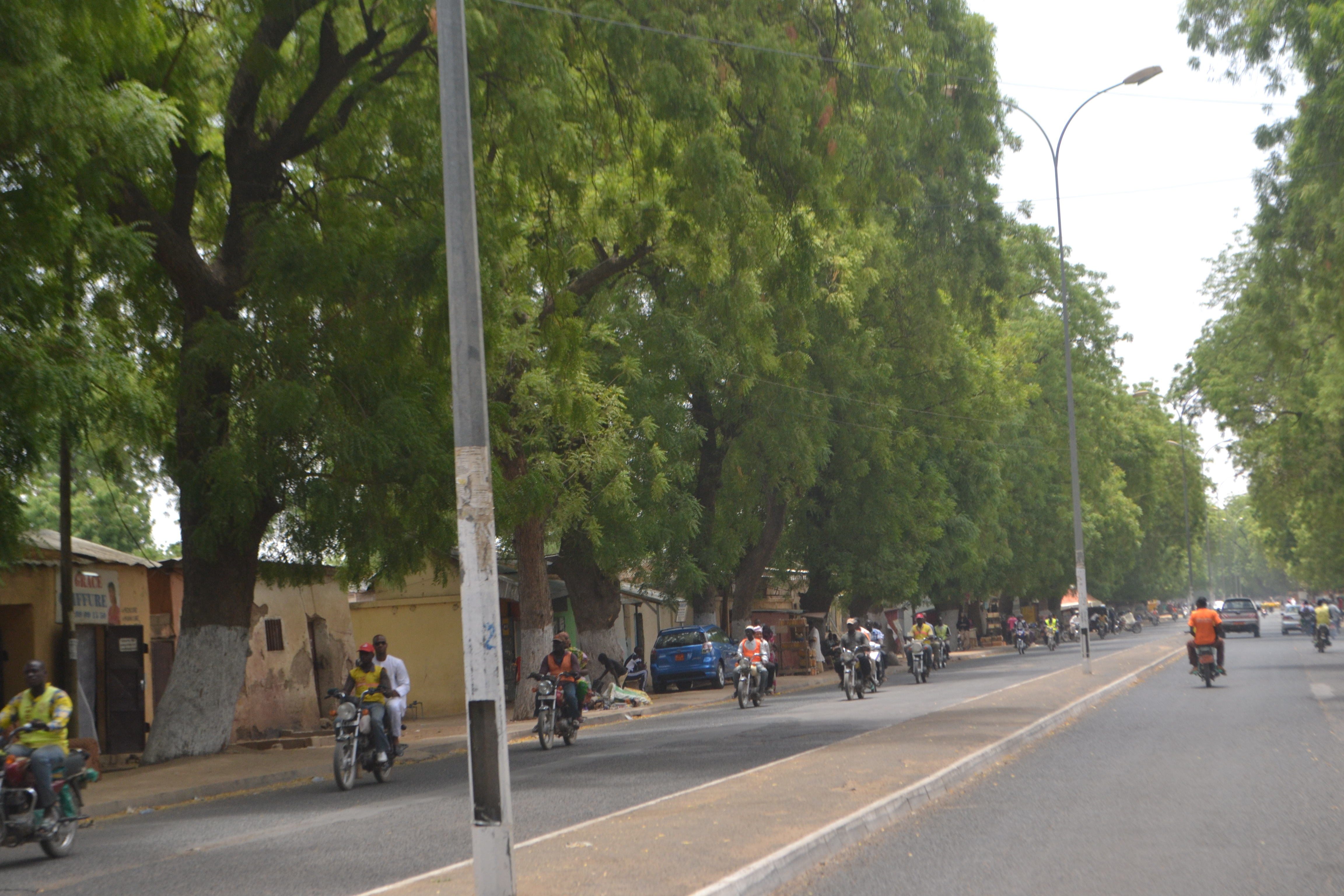 This is an image with the theme "Africa on the Move or Transport" from: Cameroon